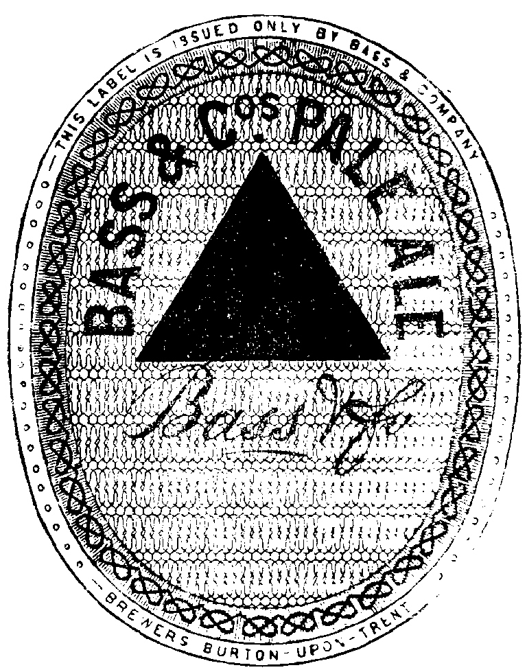 Logo of Bass Brewery's Pale Ale from 1876. The oldest trademark registered with The Patent Office (UK) and arguably the oldest trademark in the world.